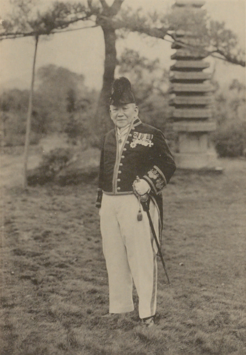 Portrait of Magoshi Kyohei (馬越恭平, 1844 – 1933)